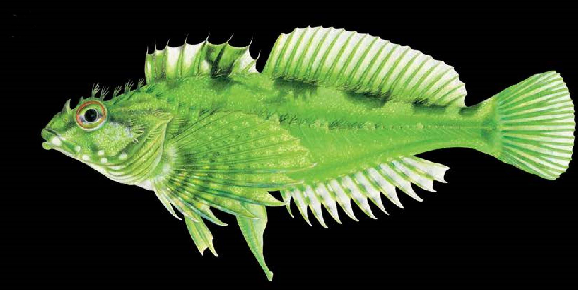 Fluffy sculpin Oligocottus snyderi image by Joseph R. Tomelleri